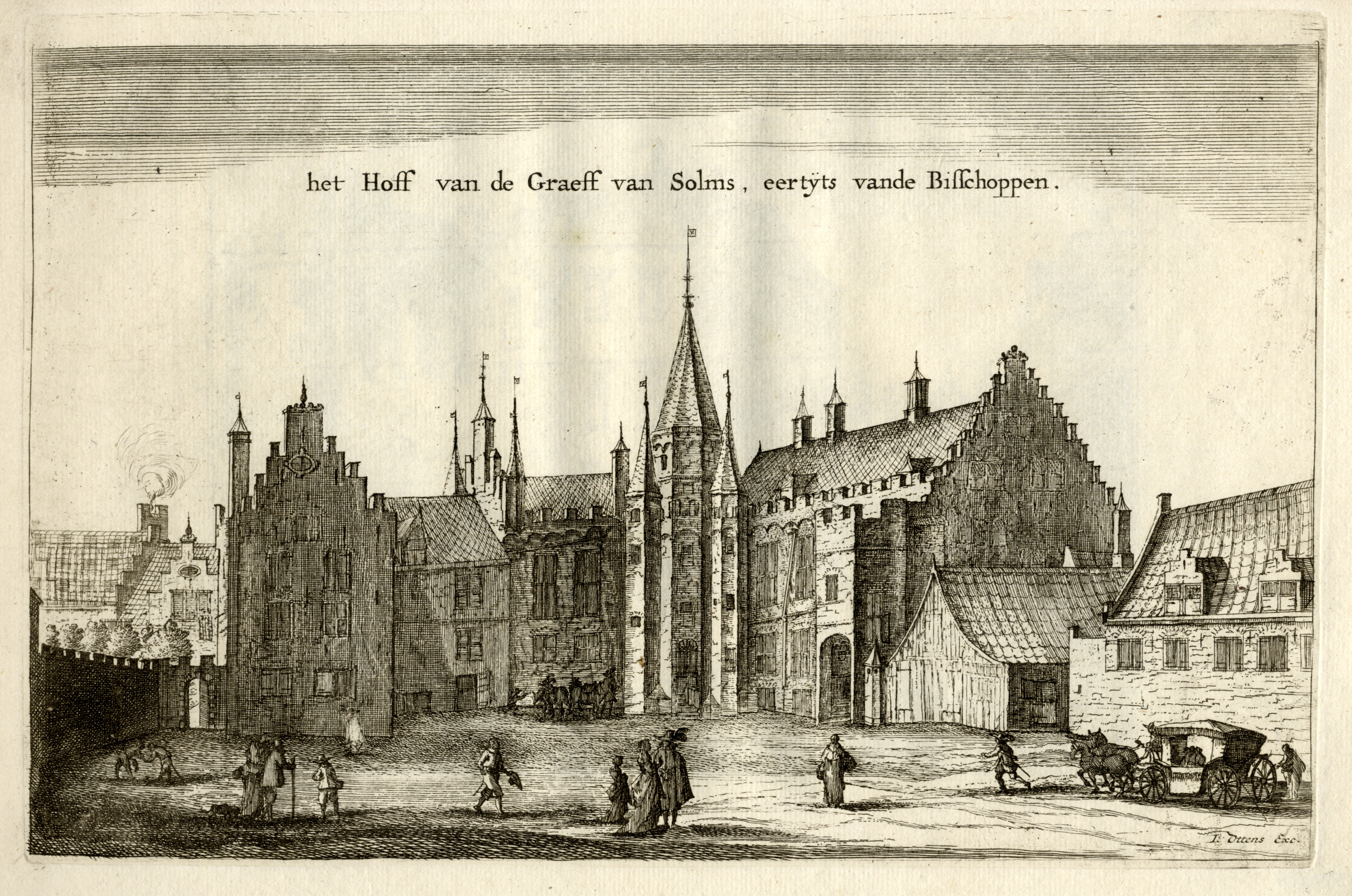 Bisschopshof Utrecht